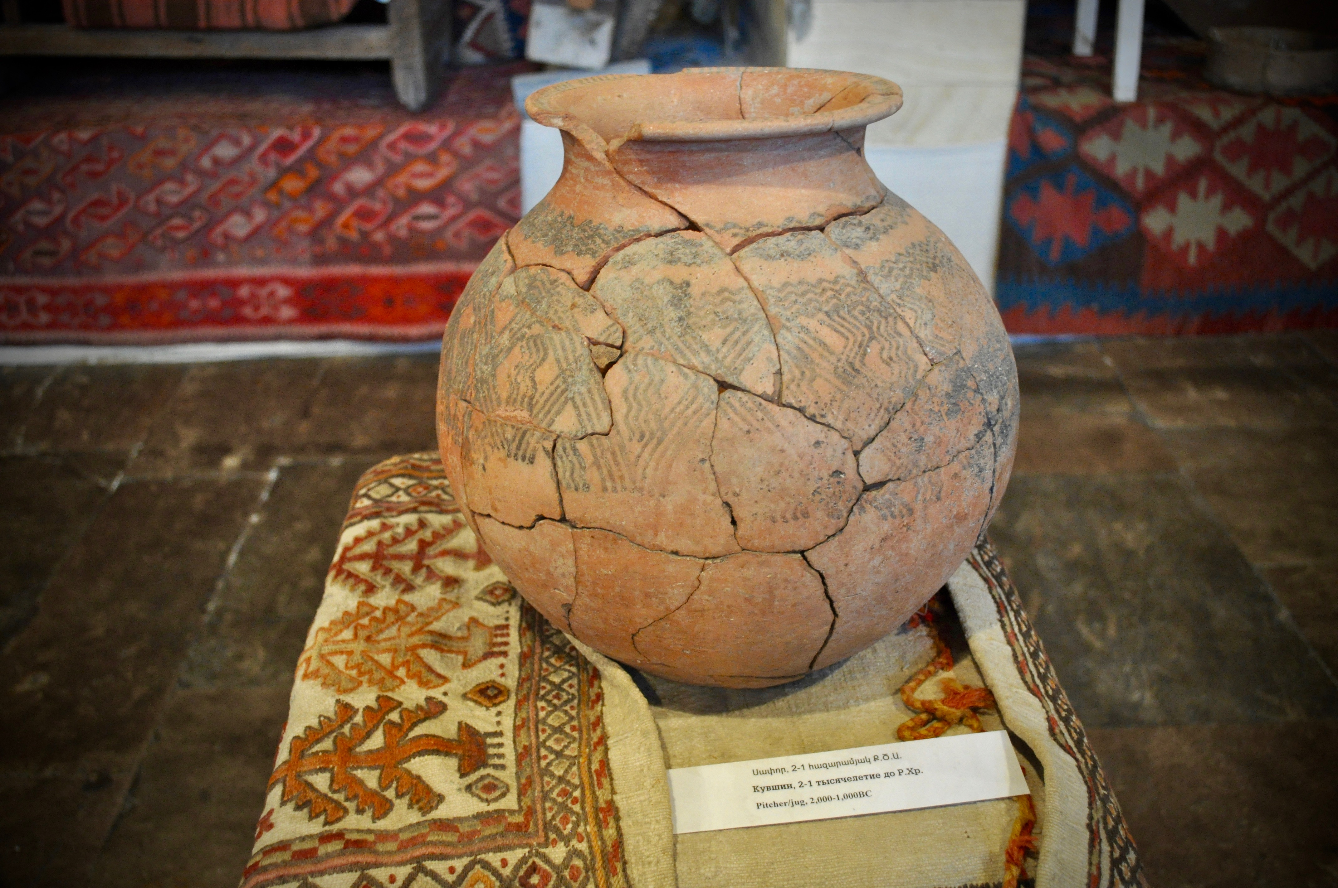 A work presented at the Local Lore Museum of Goris.